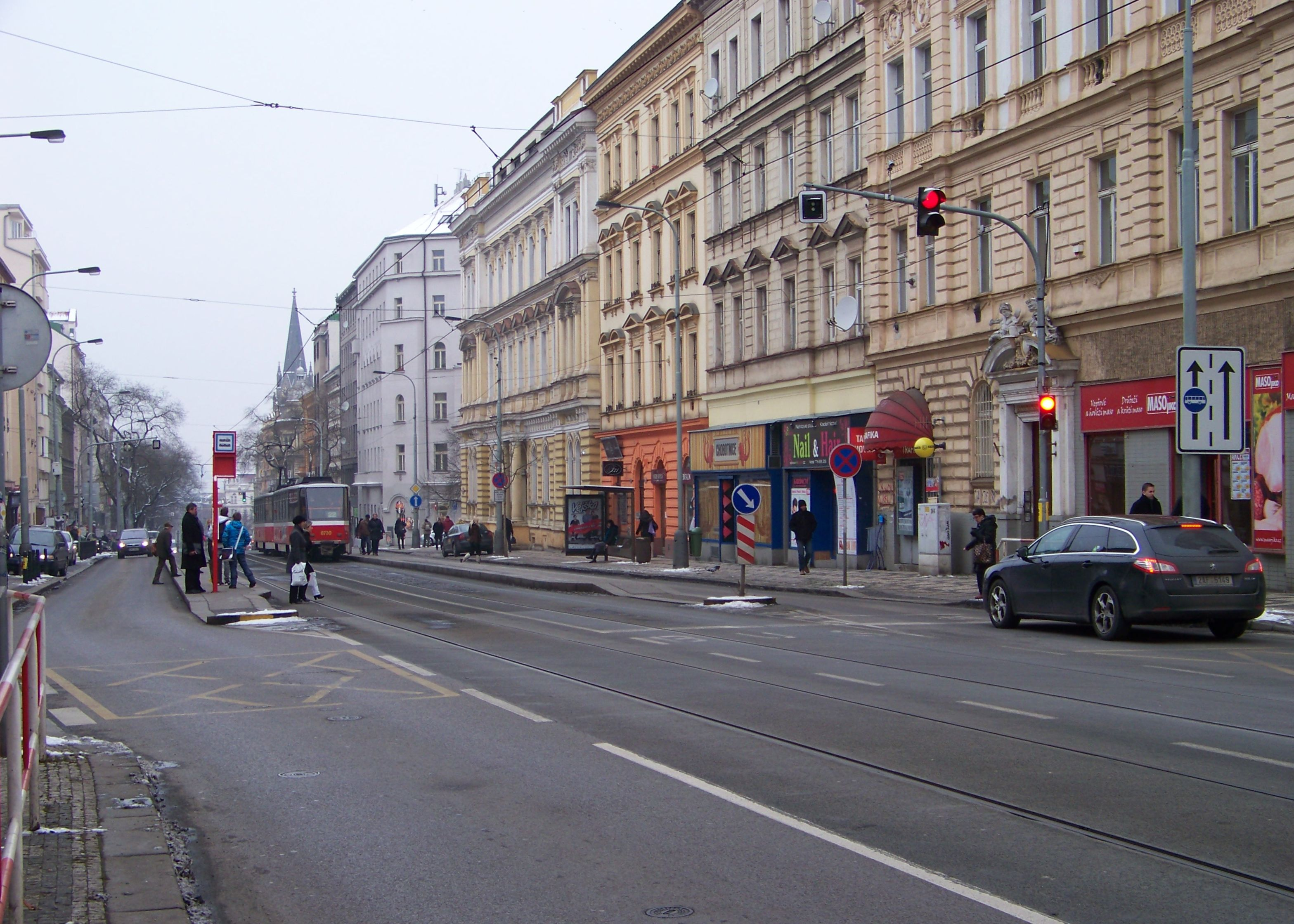 Prague-Vinohrady, Czech Republic. Francouzská street, a bus and tram stop Jana Masaryka. - Google Maps - Google Earth